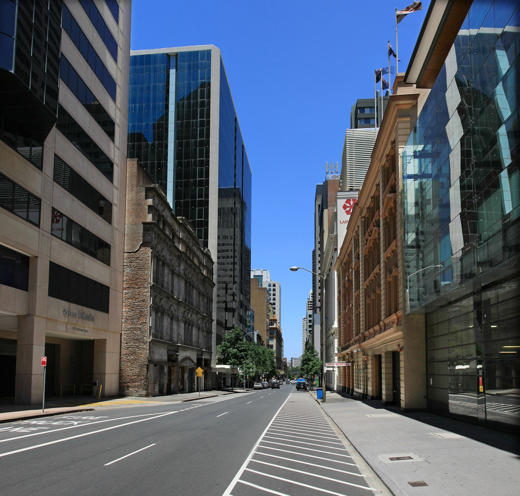 Castlereigh Street Sydney